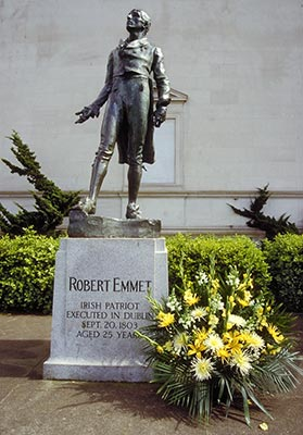 Robert Emmet created by Jerome Connor (1916). This statue stands in front of the California Academy of Sciences building. Golden Gate Park (San Francisco, California).